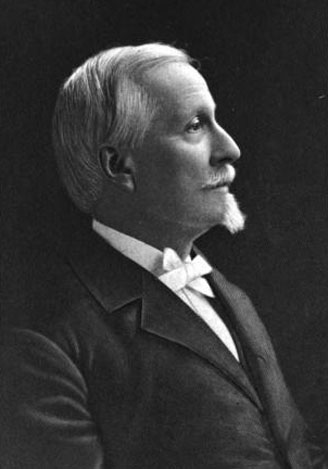 Portrait of Edward Valentine